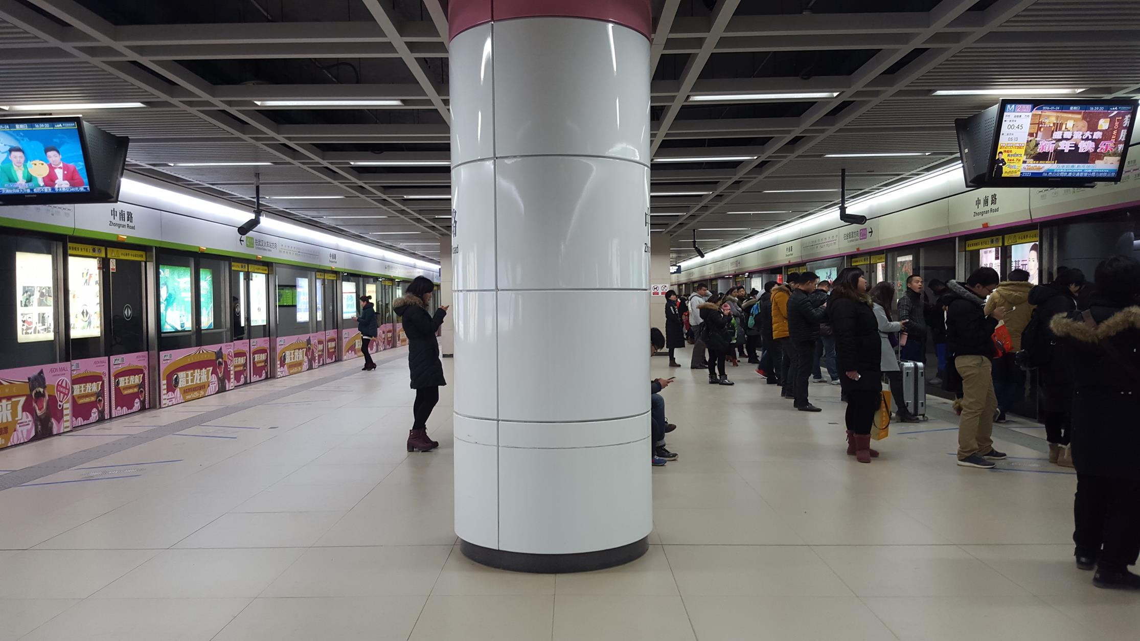 Platform of Zhongnan Road Station, Wuhan Metro